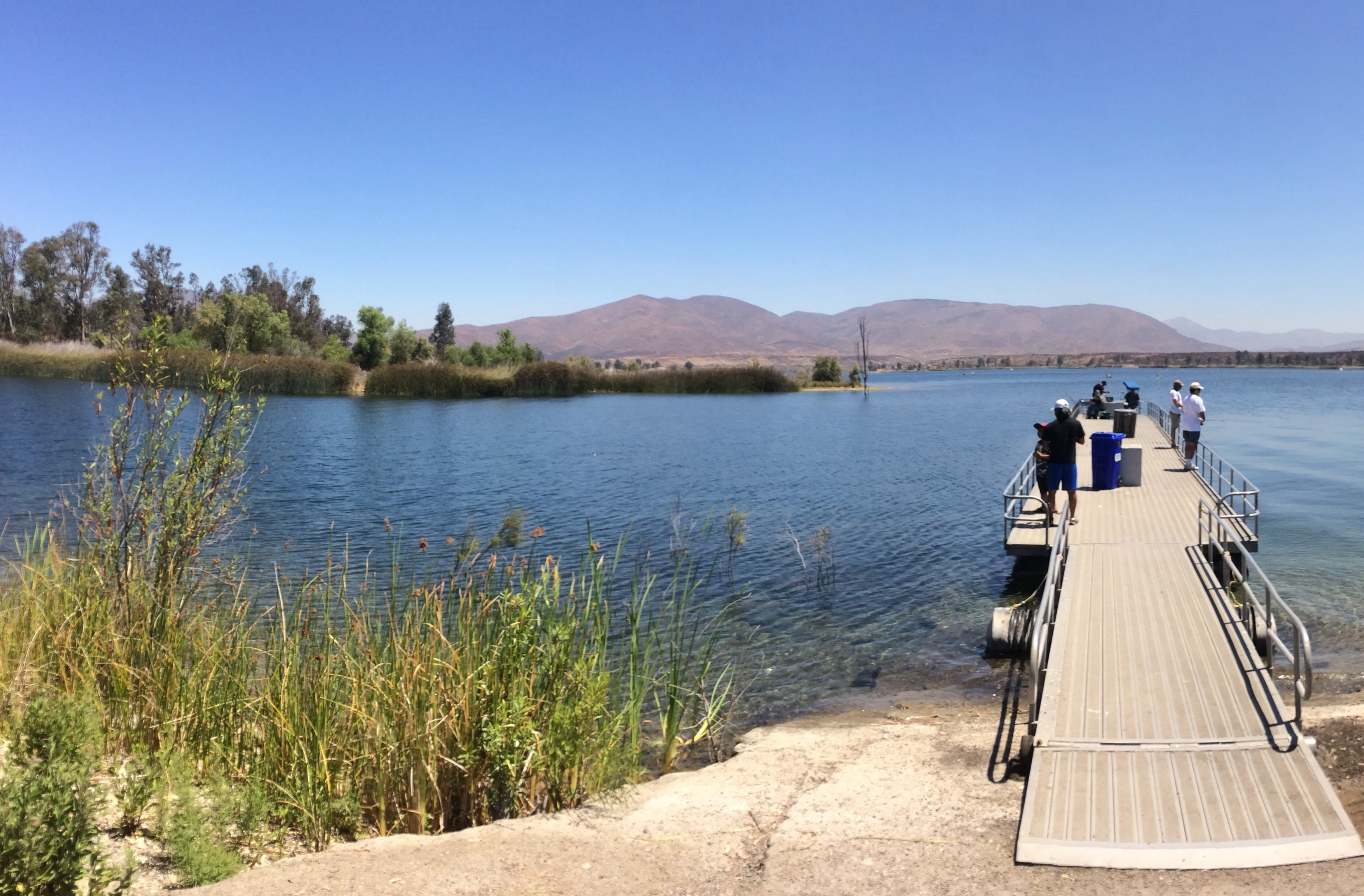 Photograph of Lower Otay Reservoir in San Diego County, California.